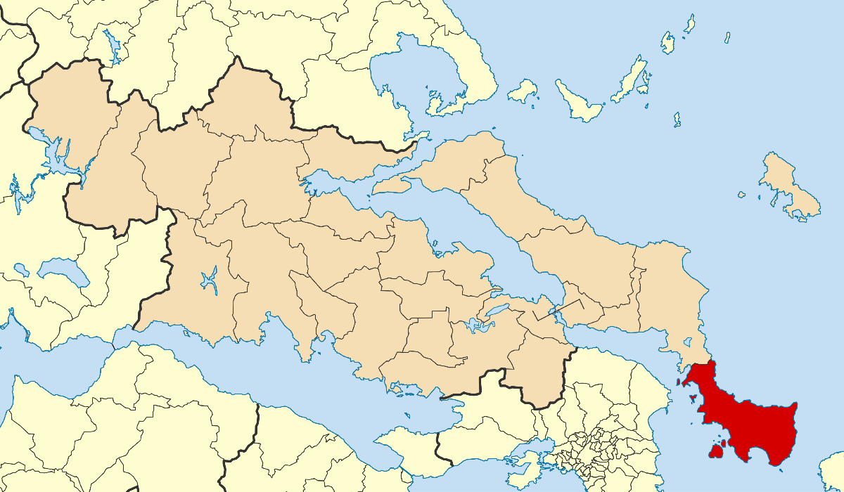 Locator map for Karystos municipality in Greek region Central Greece (2011)